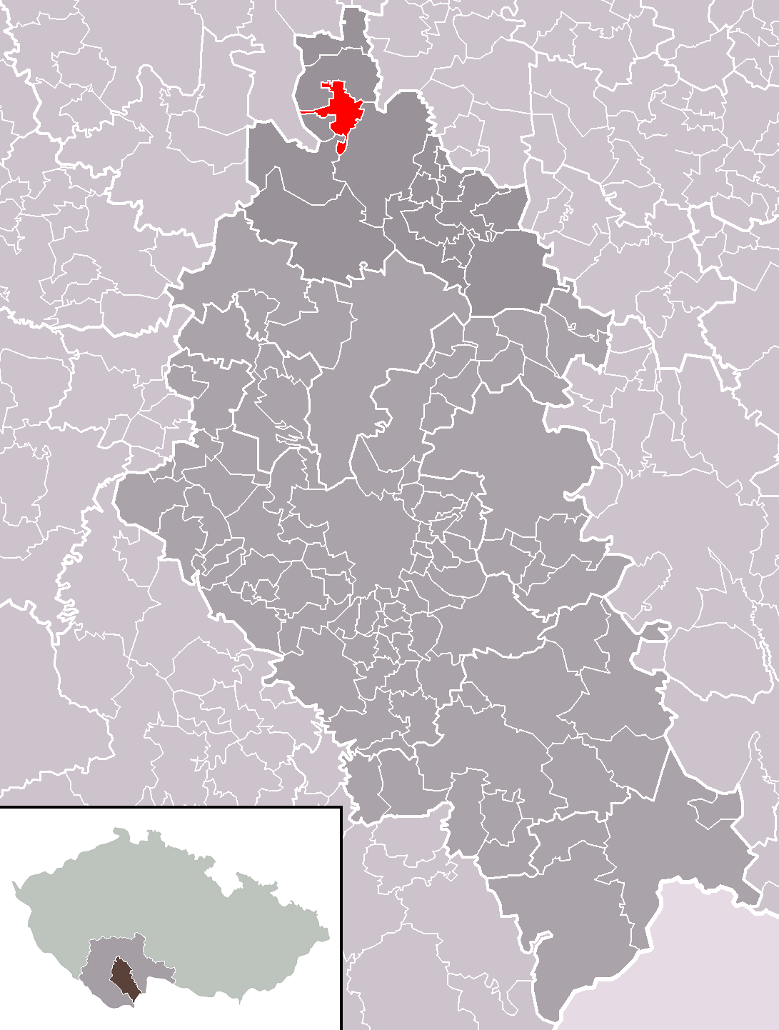 Location of Hosty municipality within České Budějovice District and administrative area of Týn nad Vltavou as a Municipality with Extended Competence.